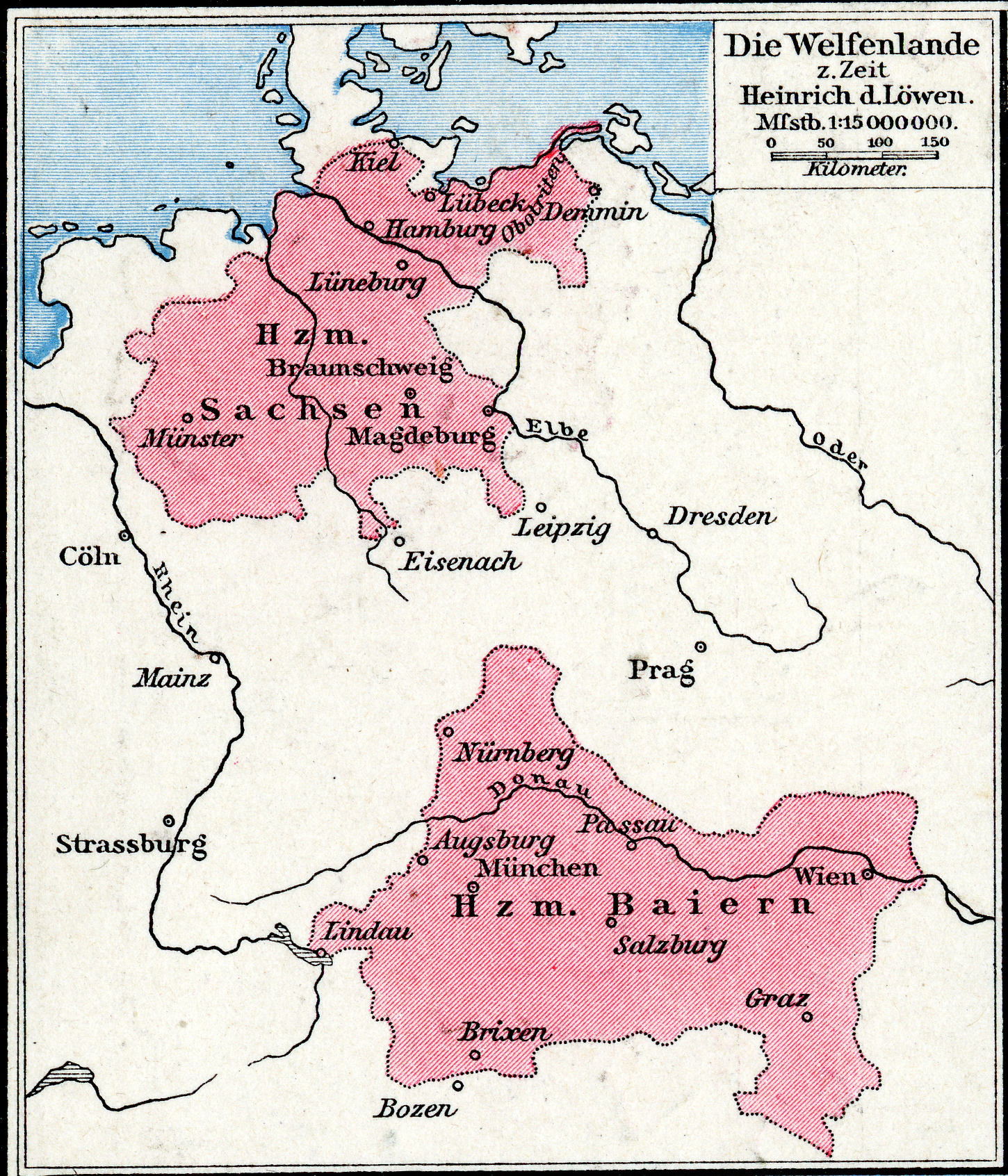 The Welf lands at the time of Henry the Lion